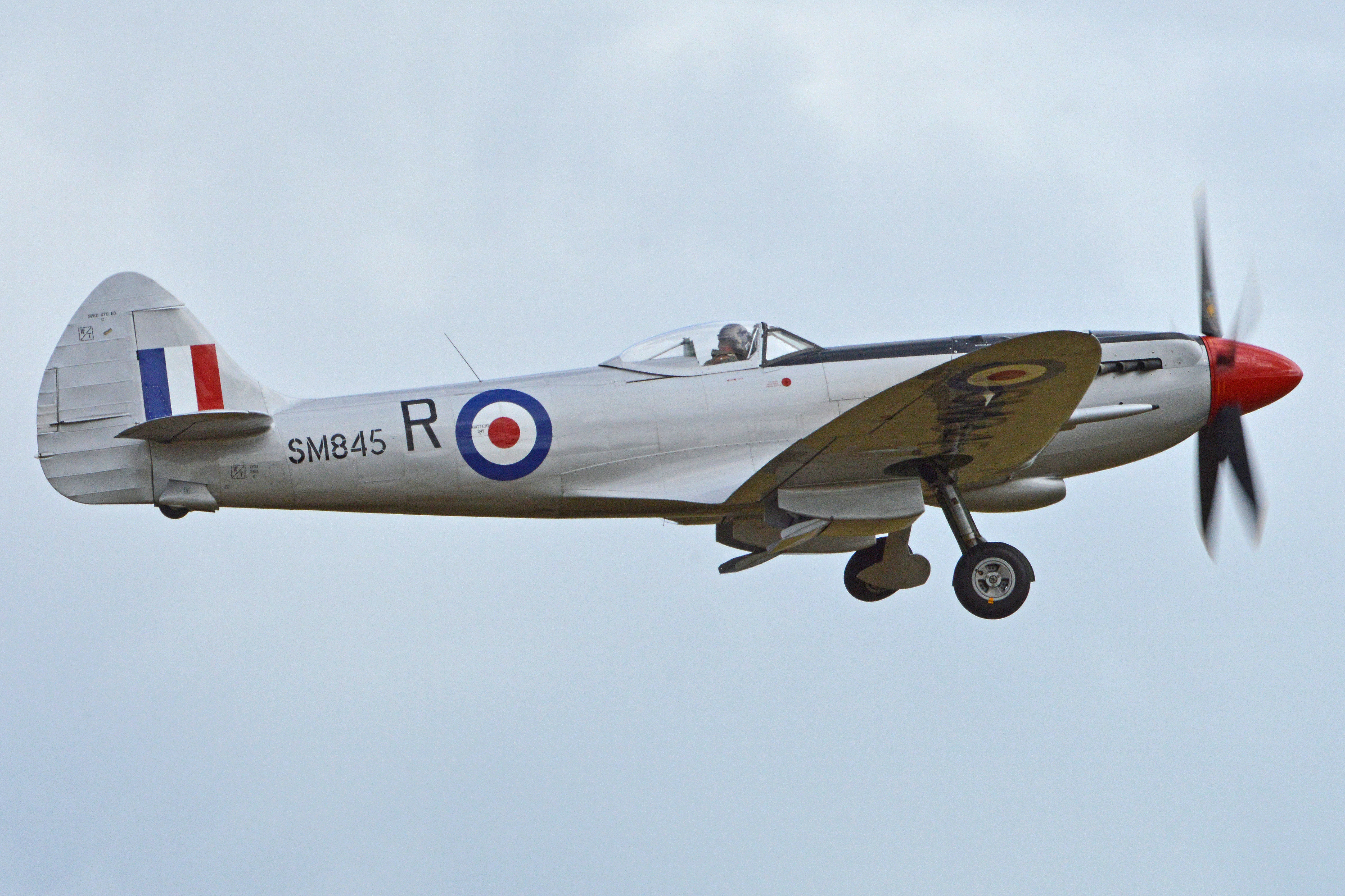 c/n 6S/672224. RAF serial ‘SM845’. Indian Air Force serial ‘HS687’. In the markings of 28sqn, RAF, based at Hong Kong in 1950. 2015 Flying Legends Airshow. Duxford, Cambridgeshire, UK. 12-7-2015